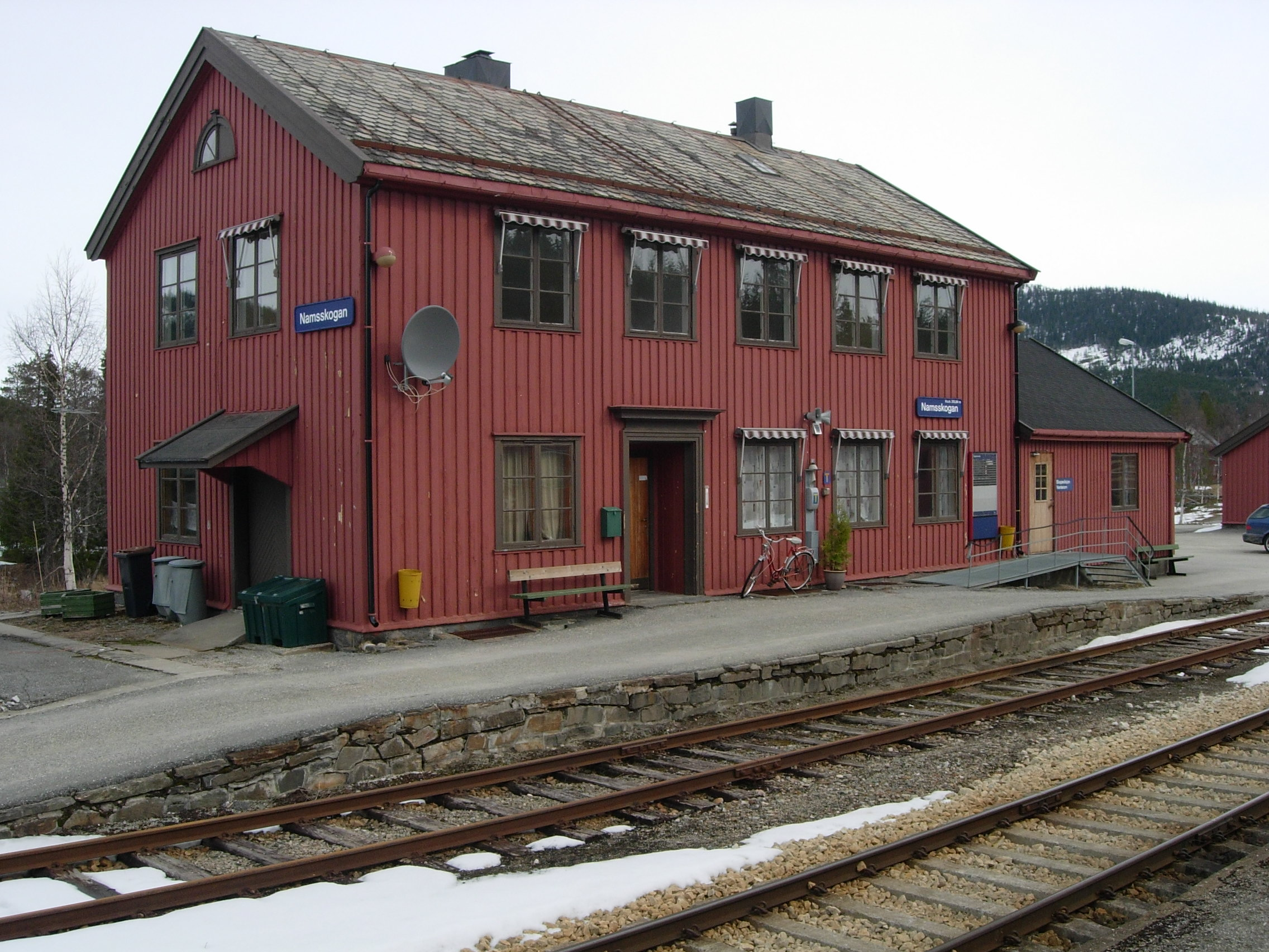 Namskogan station on Nordlandsbanen, Norway